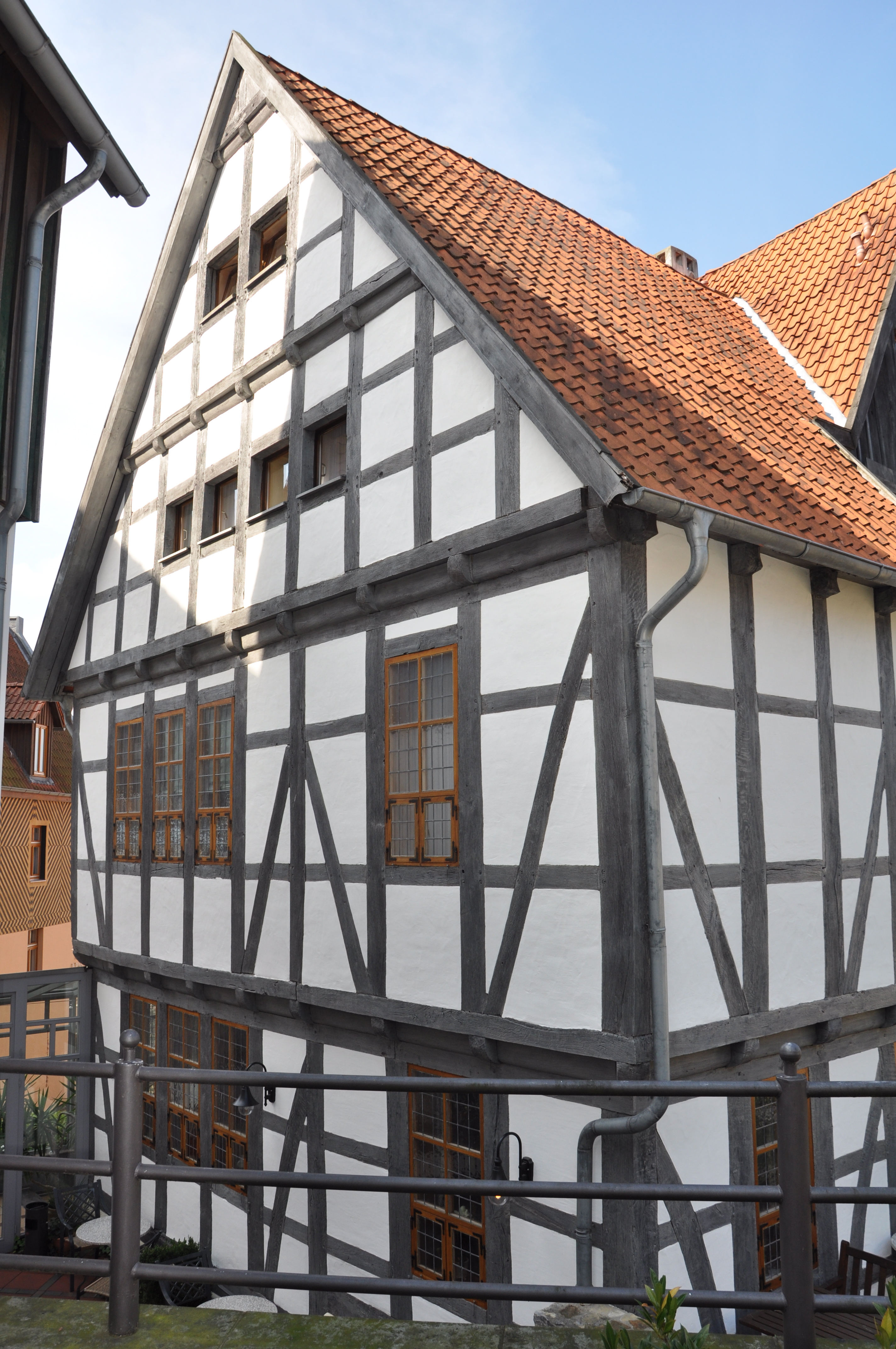 Old timber-frame building in Germany.